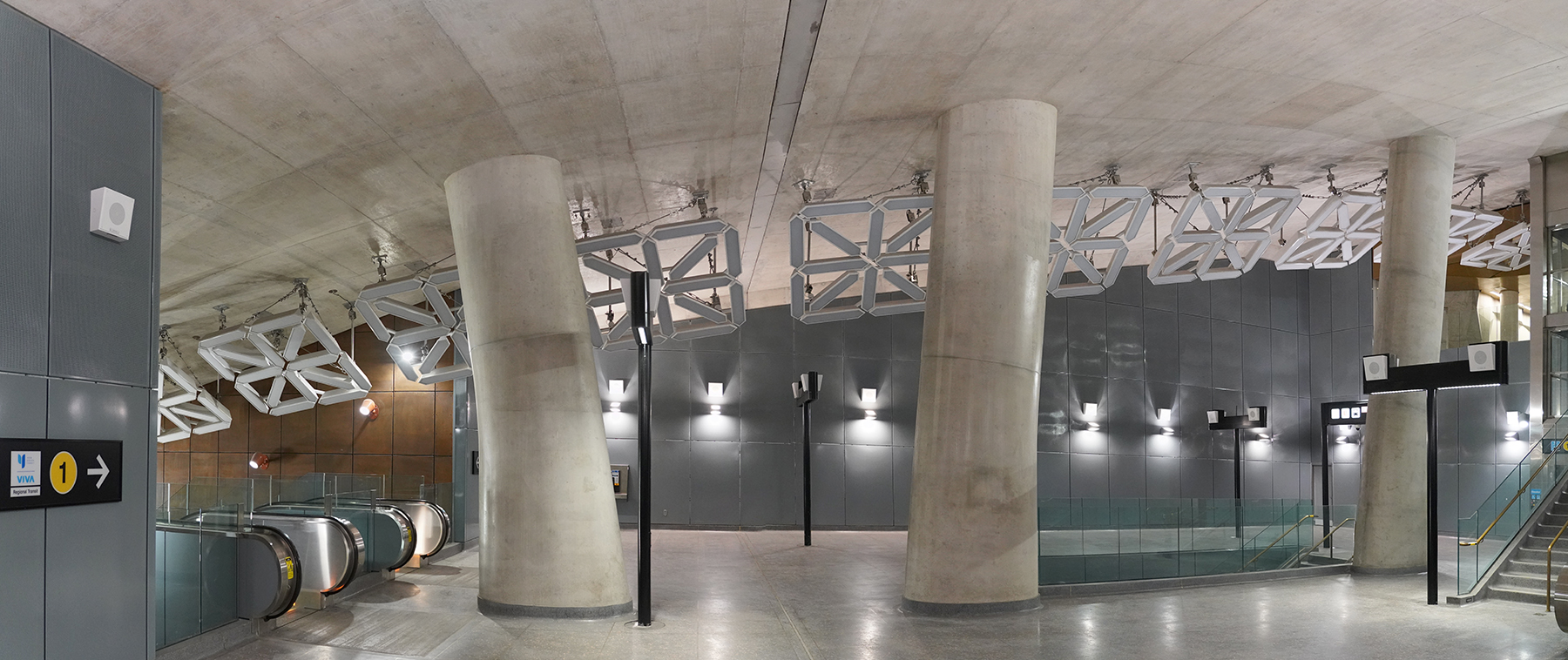 Intermediate Level at Bus Terminal with artwork by realities:united